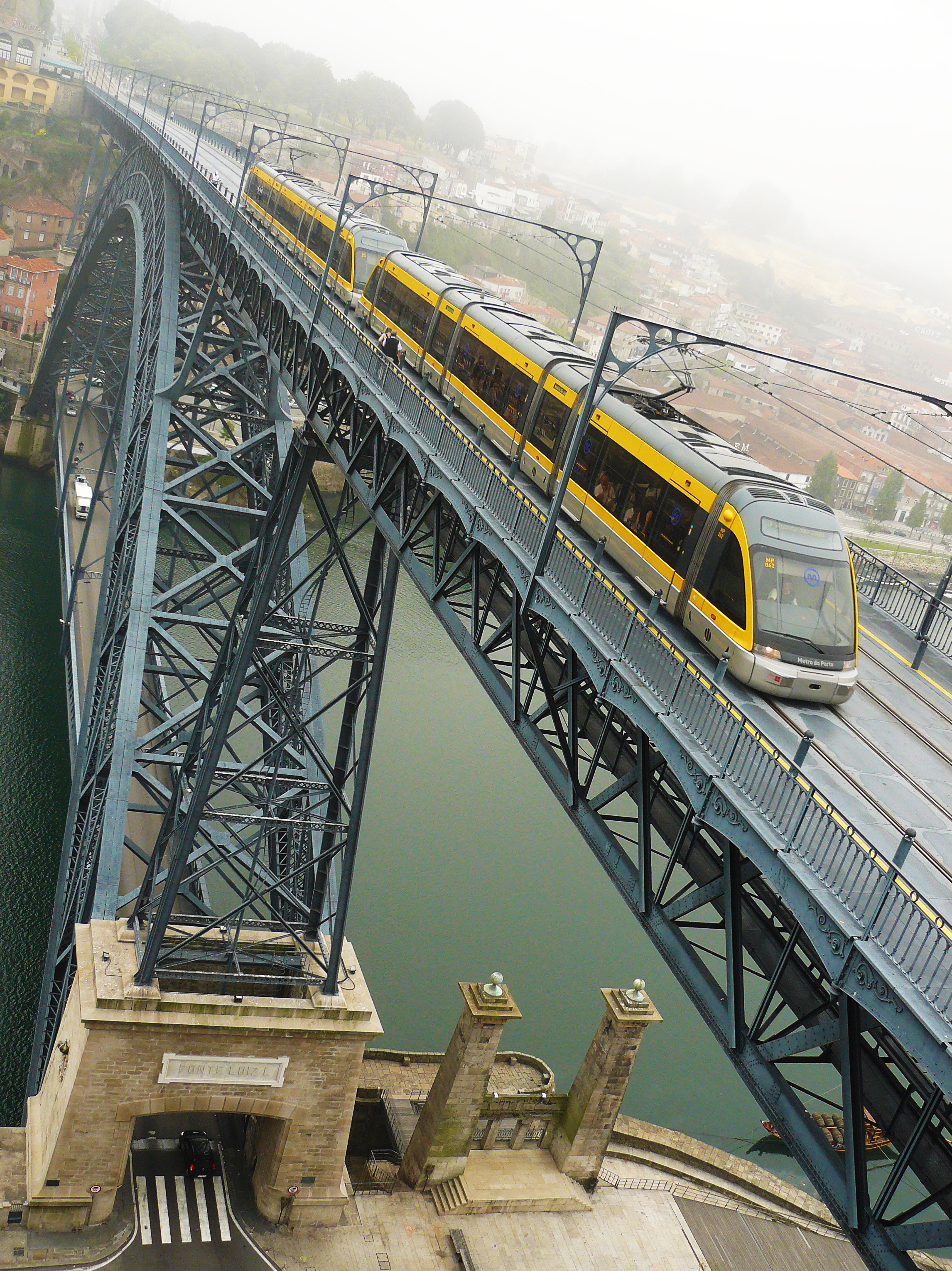 This file was uploaded for Wiki Loves Monuments in Portugal with the unique identifier 74503.